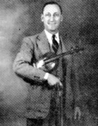 A picture of Fiddlin' Arthur Smith